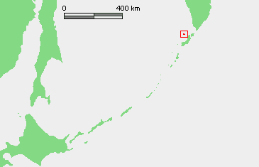 Location of Atlasov Island (Атласова / 阿頼度島), Kuril Islands, Russia